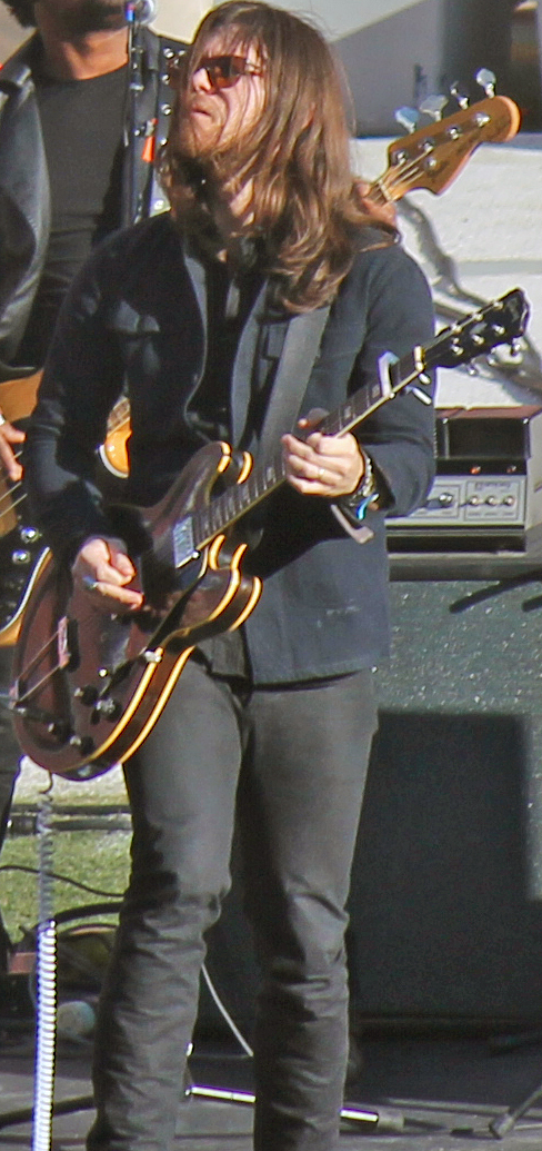 Dave Welsh, a musician and member of the rock group The Fray.